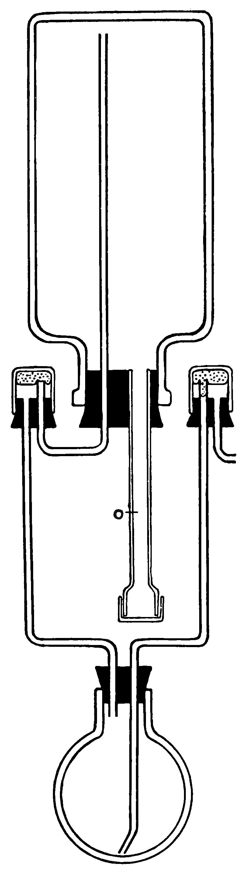 Sectional diagram showing the essentials of the spherical porous cup atmometer with non-rain-absorbing device. A rubber stopper in the bottom bears besides the supply tube to the first mercury valve a larger tube for filling. The latter has a mask to serve as zero point and is covered by a loose fitting cap. Suction through the open tube at extreme left removes the air from the system and fills the whole with water. Mercury in the valves is shown as if evaporation were in progress; when rain occurs the column rises in the right-hand valva and falls in the other.